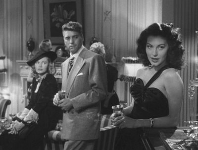 Screenshot of Ava Gardner and Burt Lancaster from the trailer for the film The Killers.